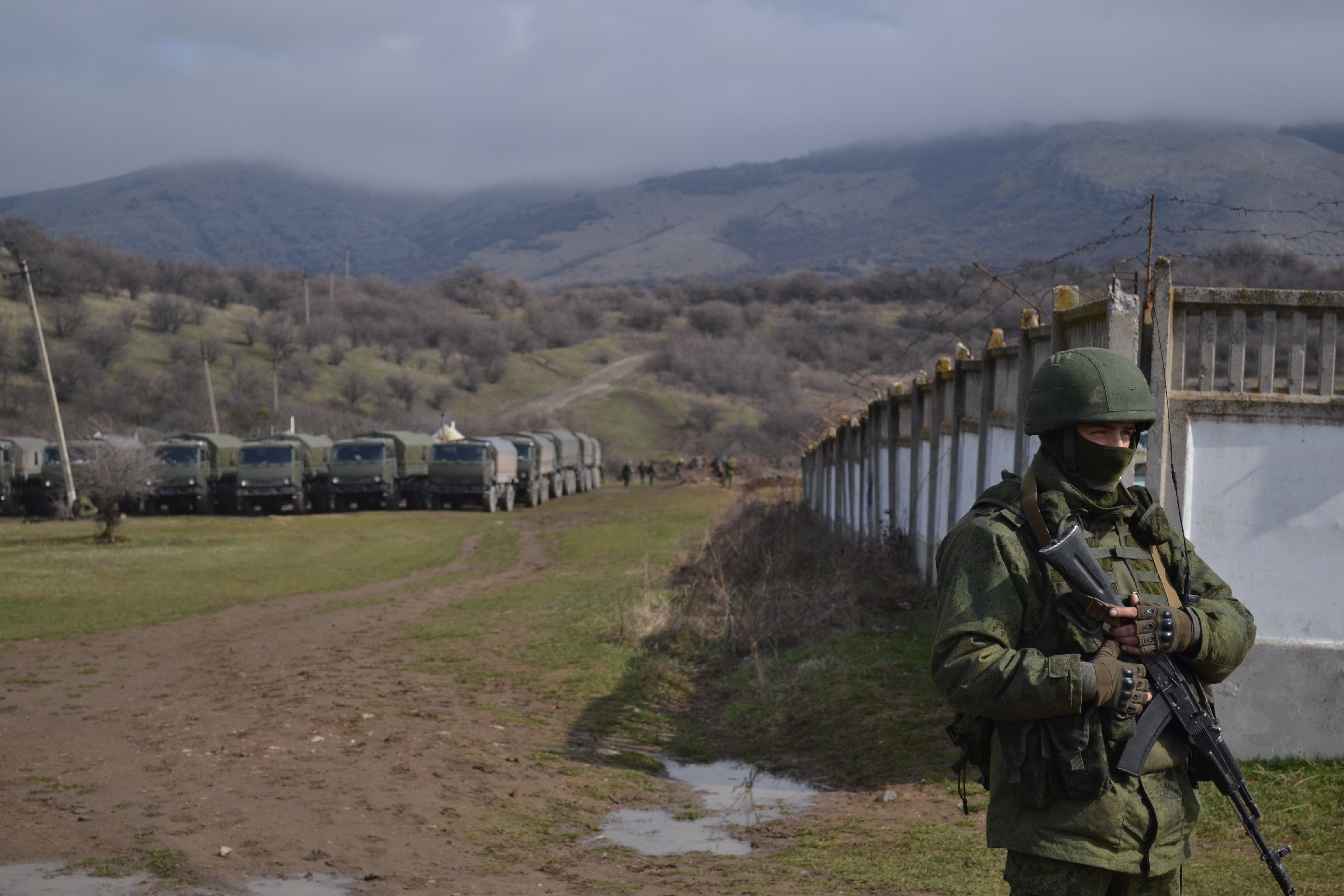 Military base at Perevalne during the 2014 Crimean crisis.